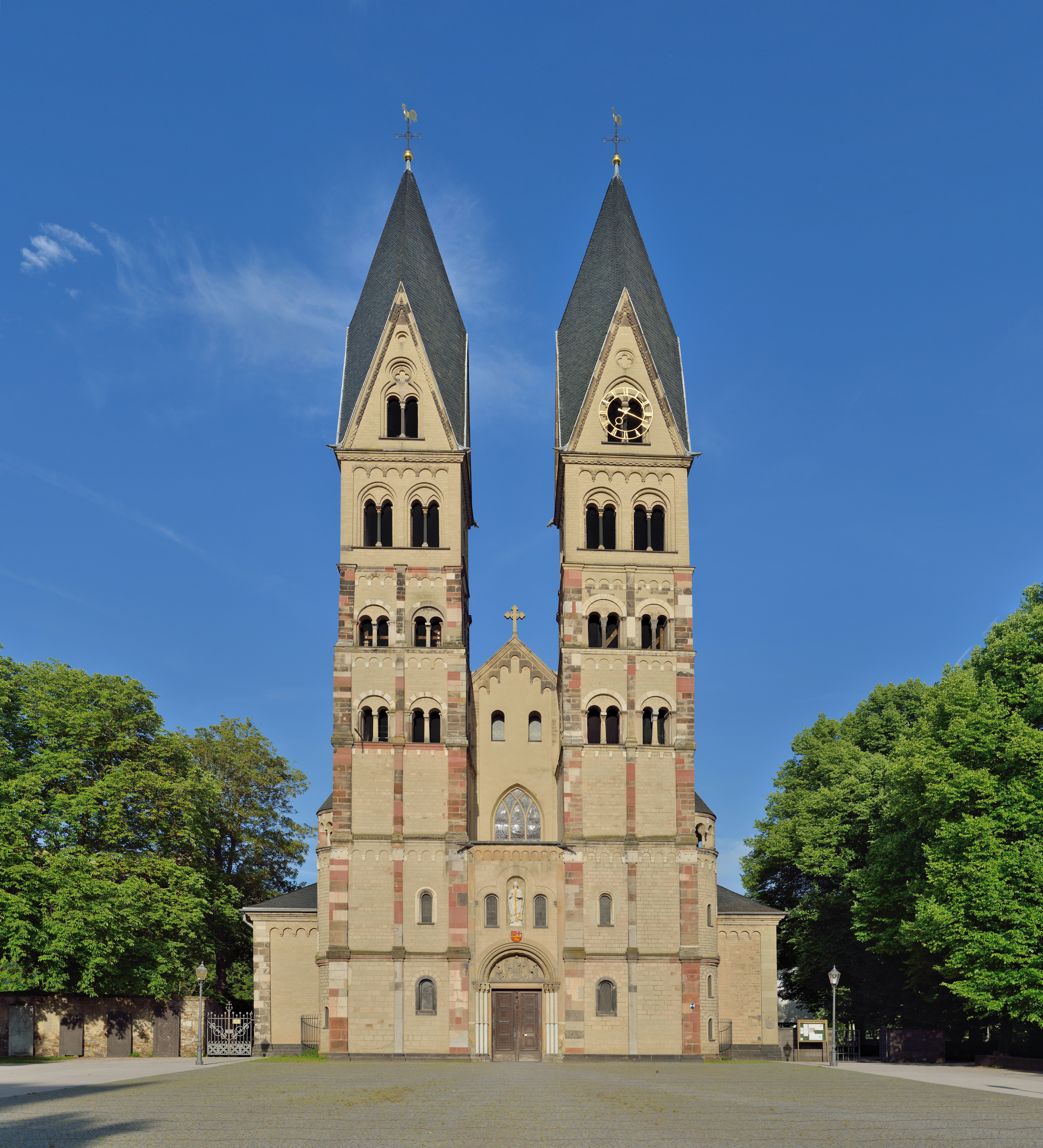 West facade of St Castor, Koblenz